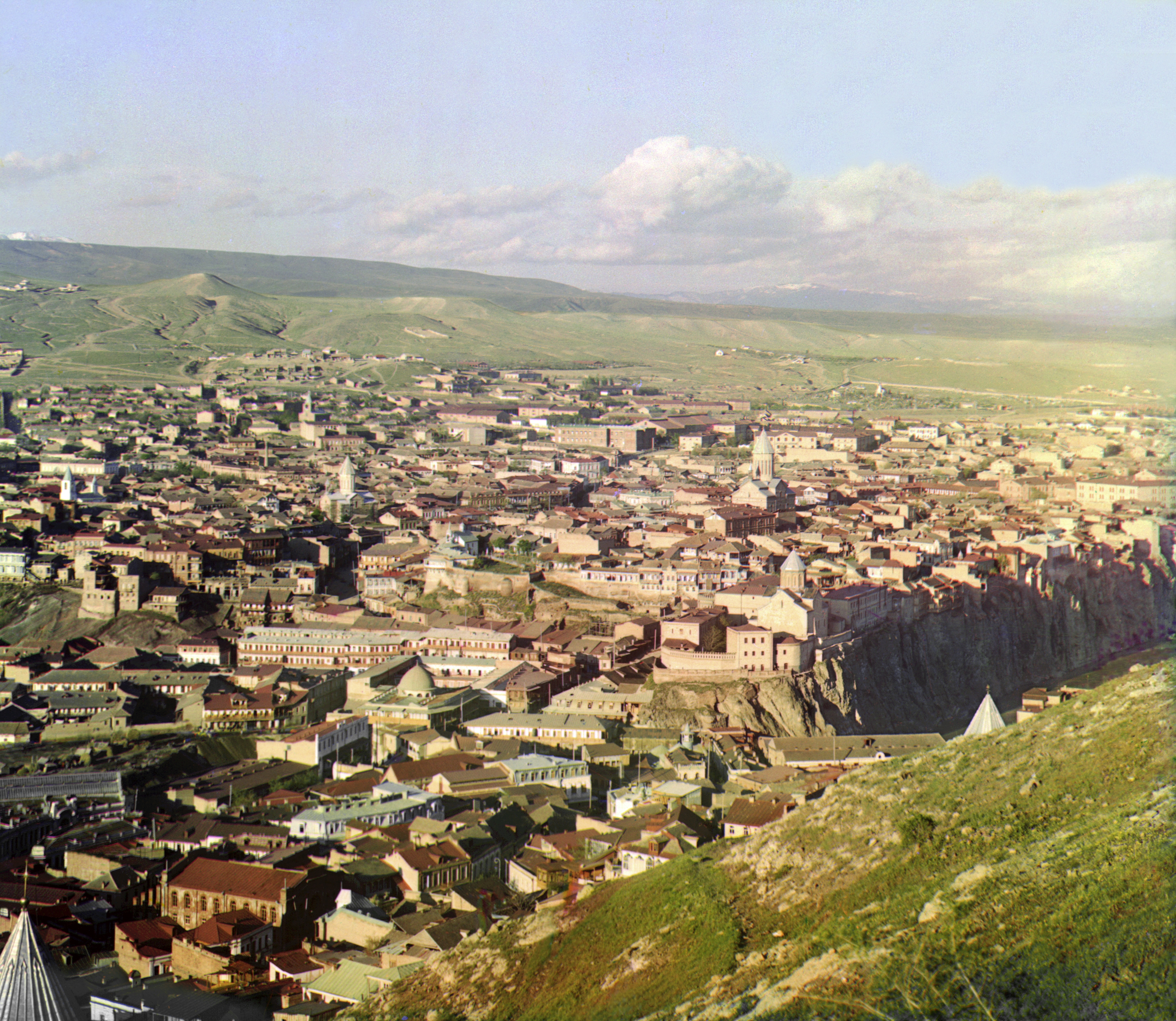 View of Tbilisi (Georgia), in the early 1900s. Early color photograph from Russia, created by Sergei Mikhailovich Prokudin-Gorskii as part of his work to document the Russian Empire from 1909 to 1915. It was taken using three black-and-white exposures, with red, yellow and blue filters respectively, long before color photographic printing existed. The three resulting images were projected using color filters to create a color projection. More recently, the Library of Congress has scanned Prokudin-Gorskii's work and contracted with other firms to produce high-resolution color images from the black and white scans.